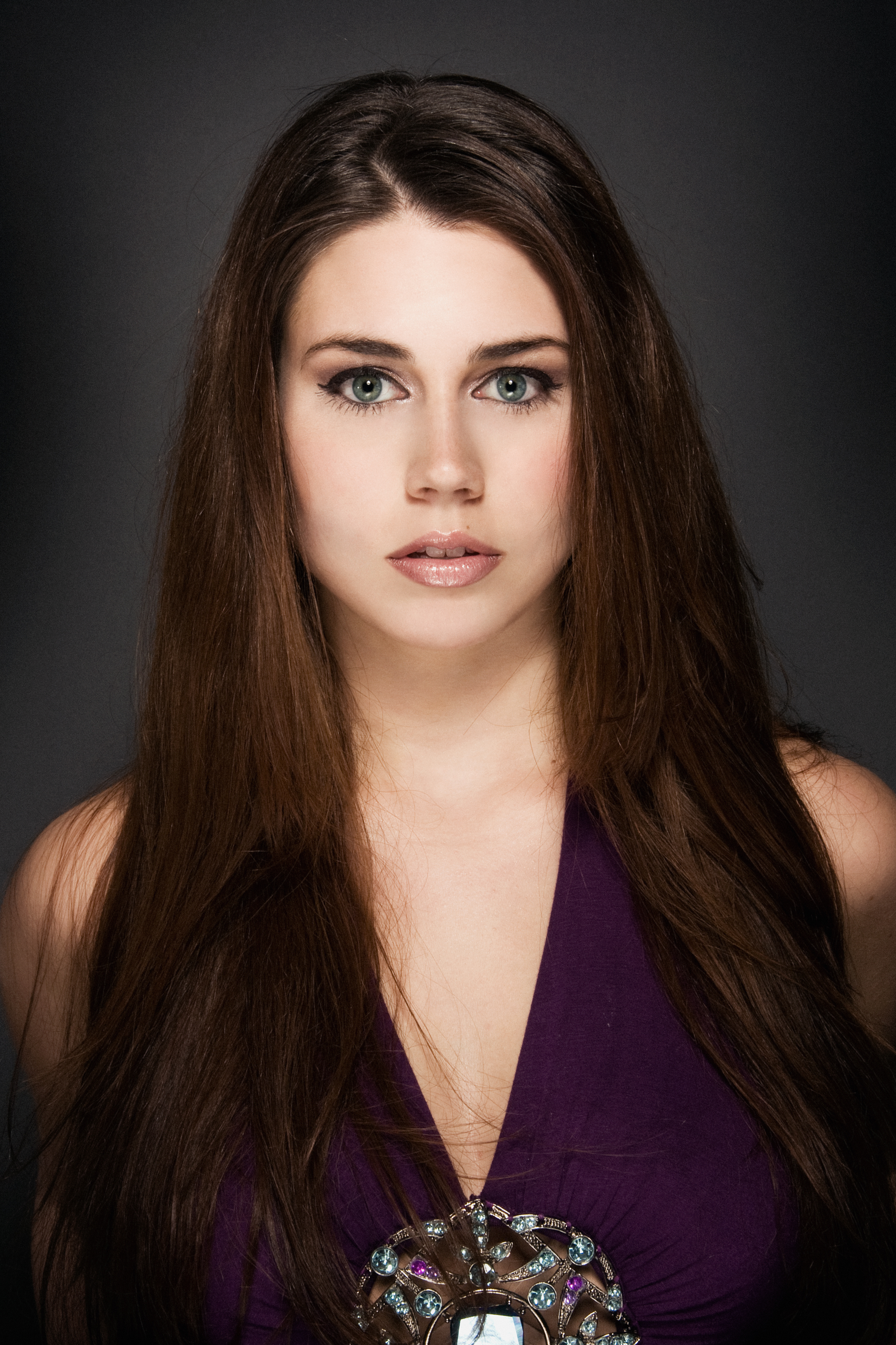 Kelly-Anne Lyons, portrait